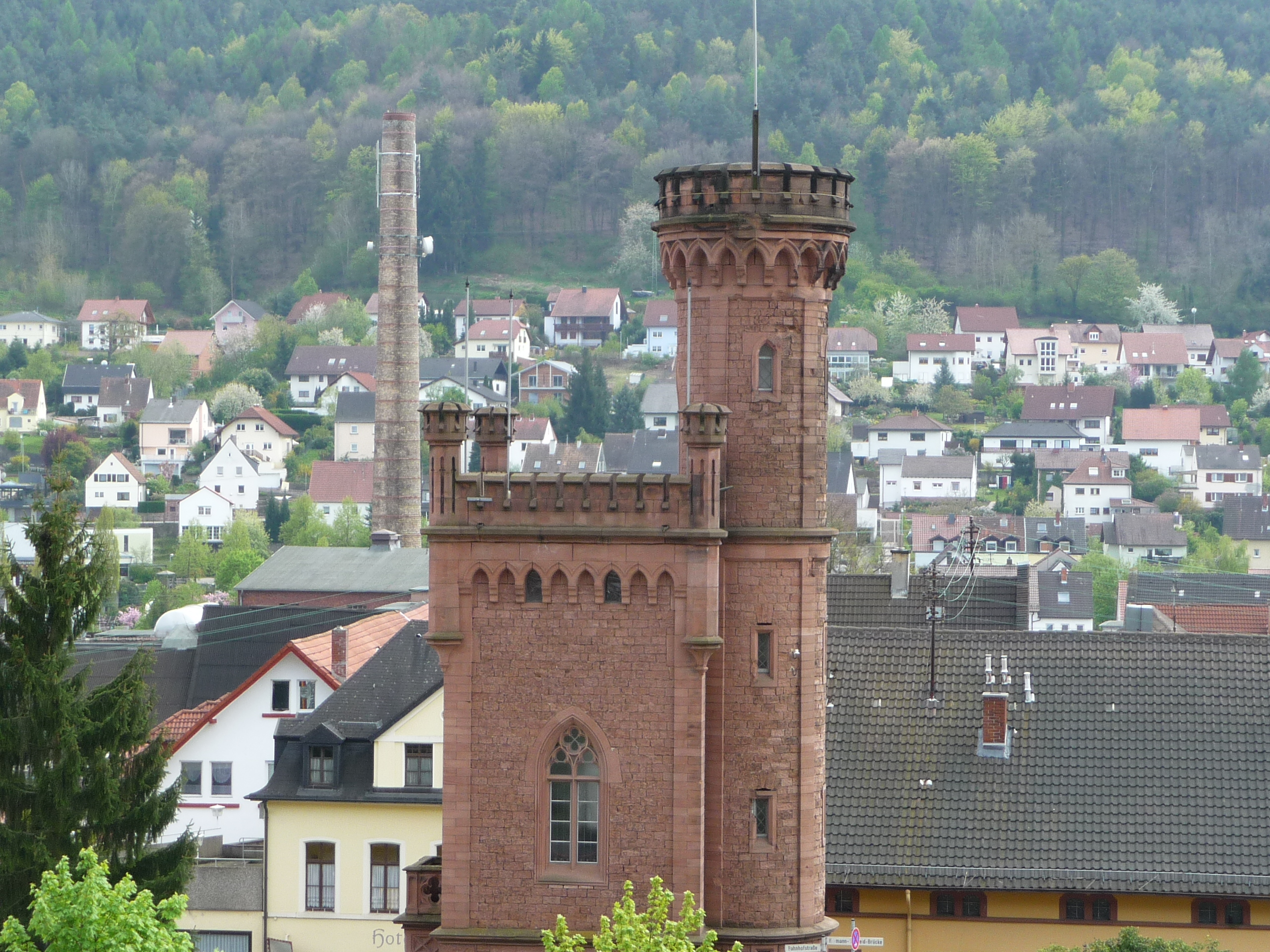 Lambrecht (Pfalz)